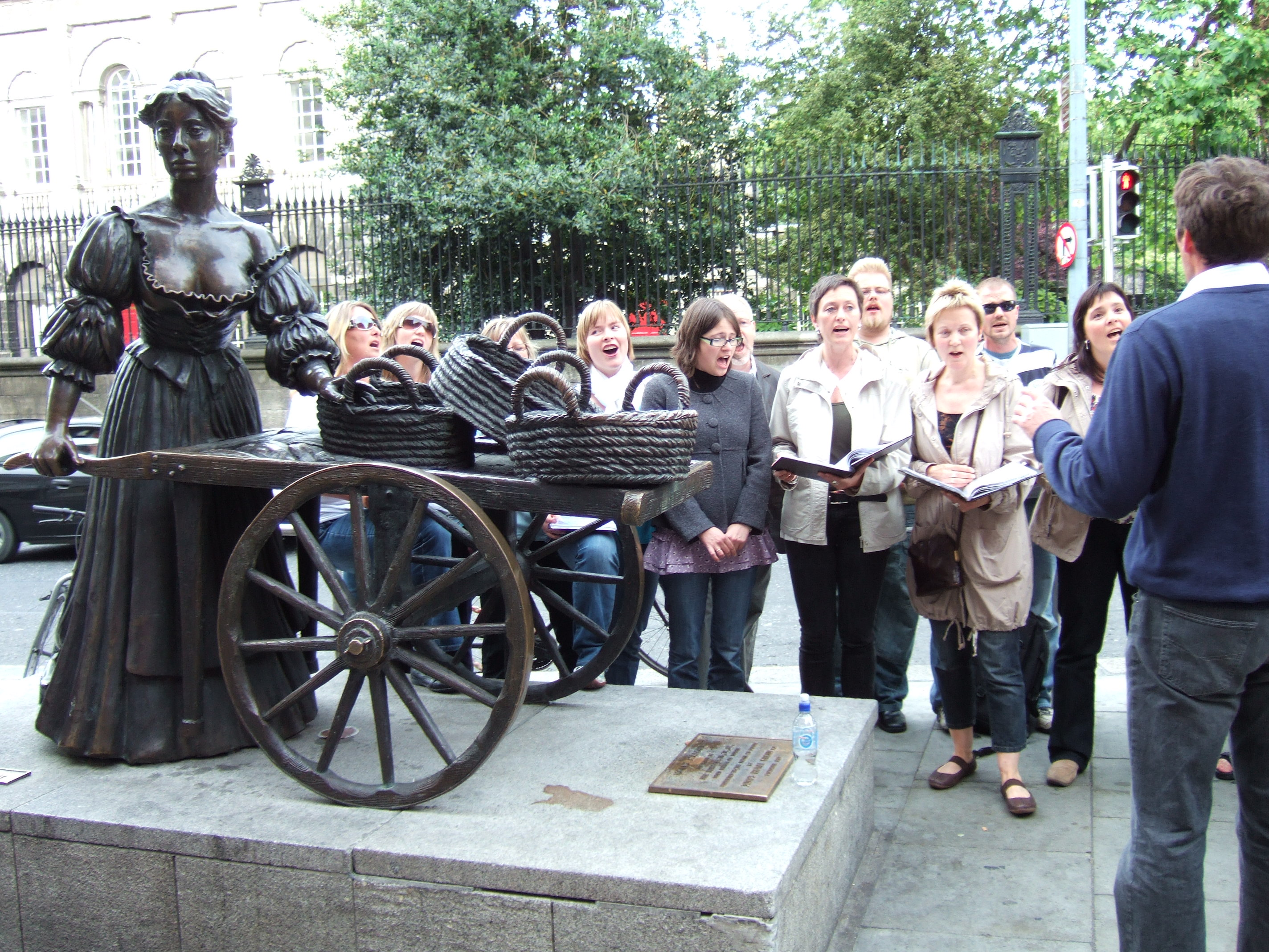 The Norwegian choir Onoy/Luroy sangkor singing "Cockles and Mussels" for Molly Malone. Dublin, June 2009